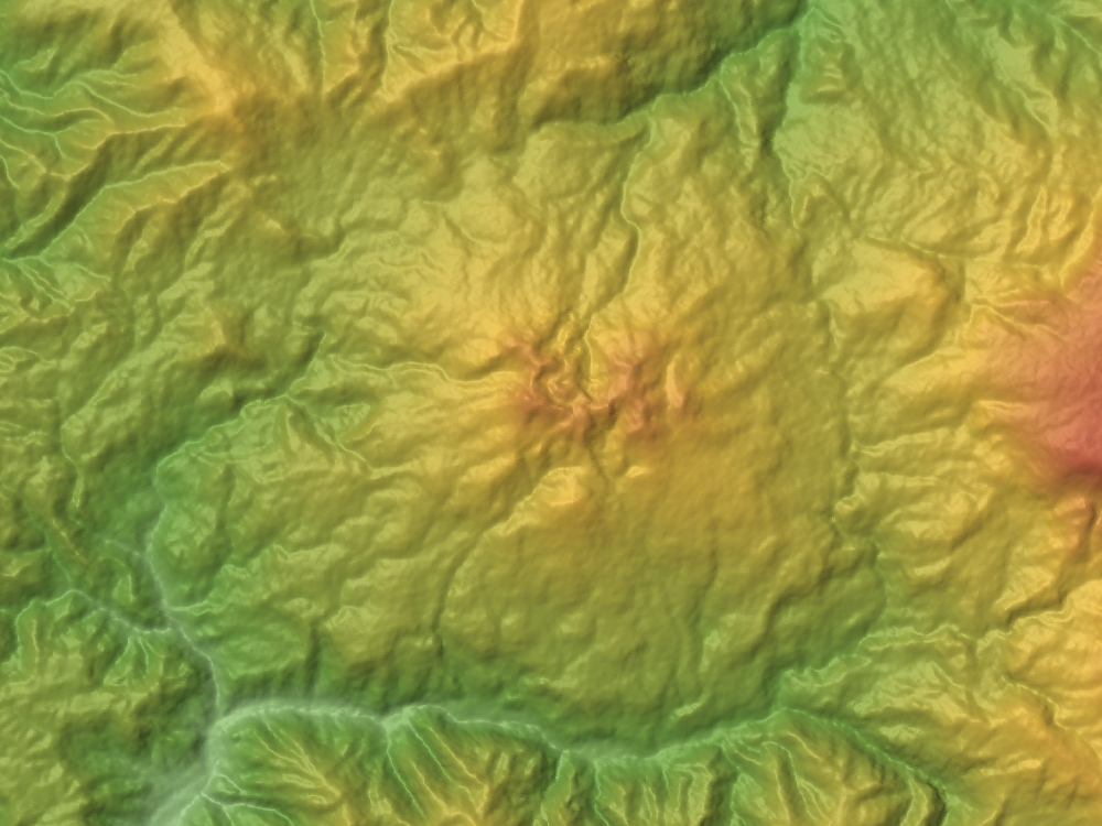 Akita-Yakeyama is a active volcano in Akita Prefecture, Honshu, Japan.